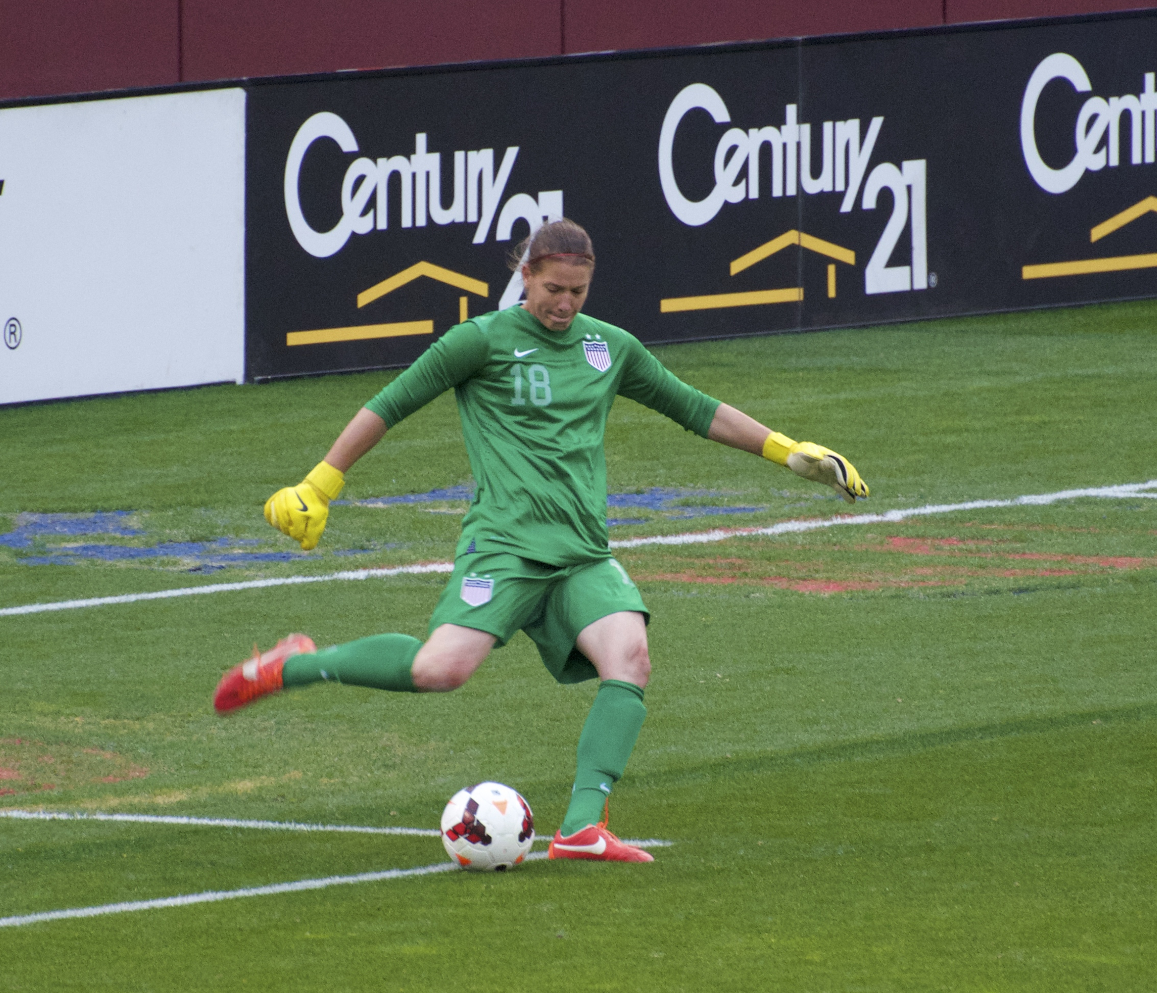 Nicole Barnhart, Candlestick Park, 27 October 2013